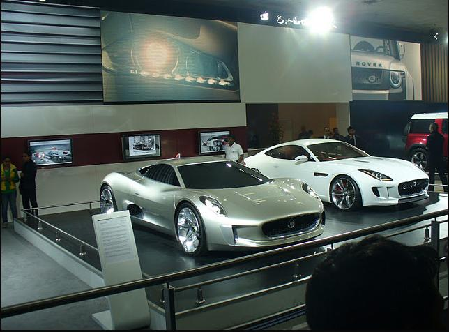 2012 Delhi Auto Expo Jaguar Cars